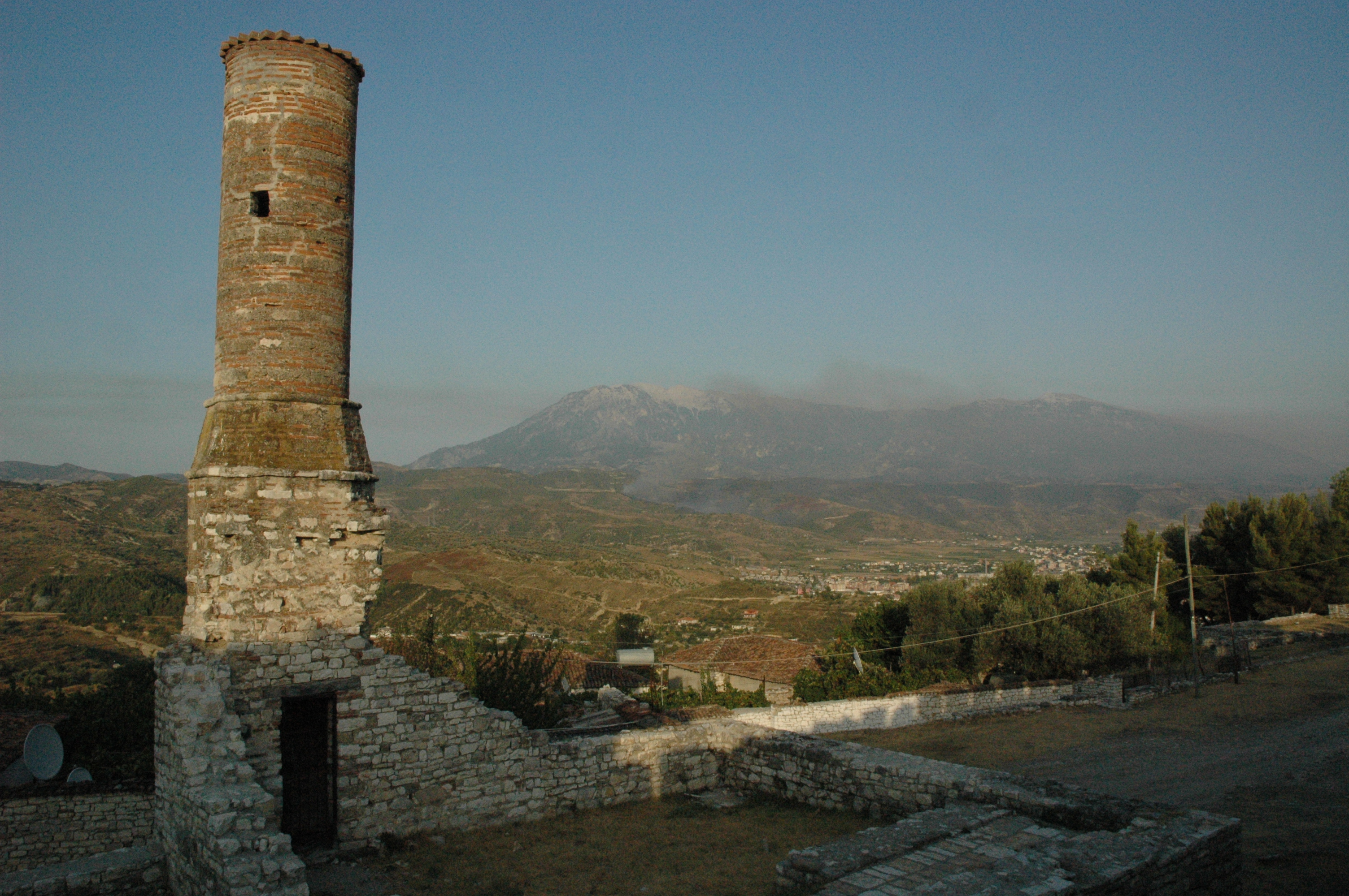 Berat, Albania: The ruins of the Red Mosque in the castle and Mount Tomorr in the back